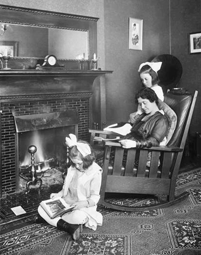 Photograph of actress Emma Dunn with her daughters Helen (seated) and Dorothy (standing)